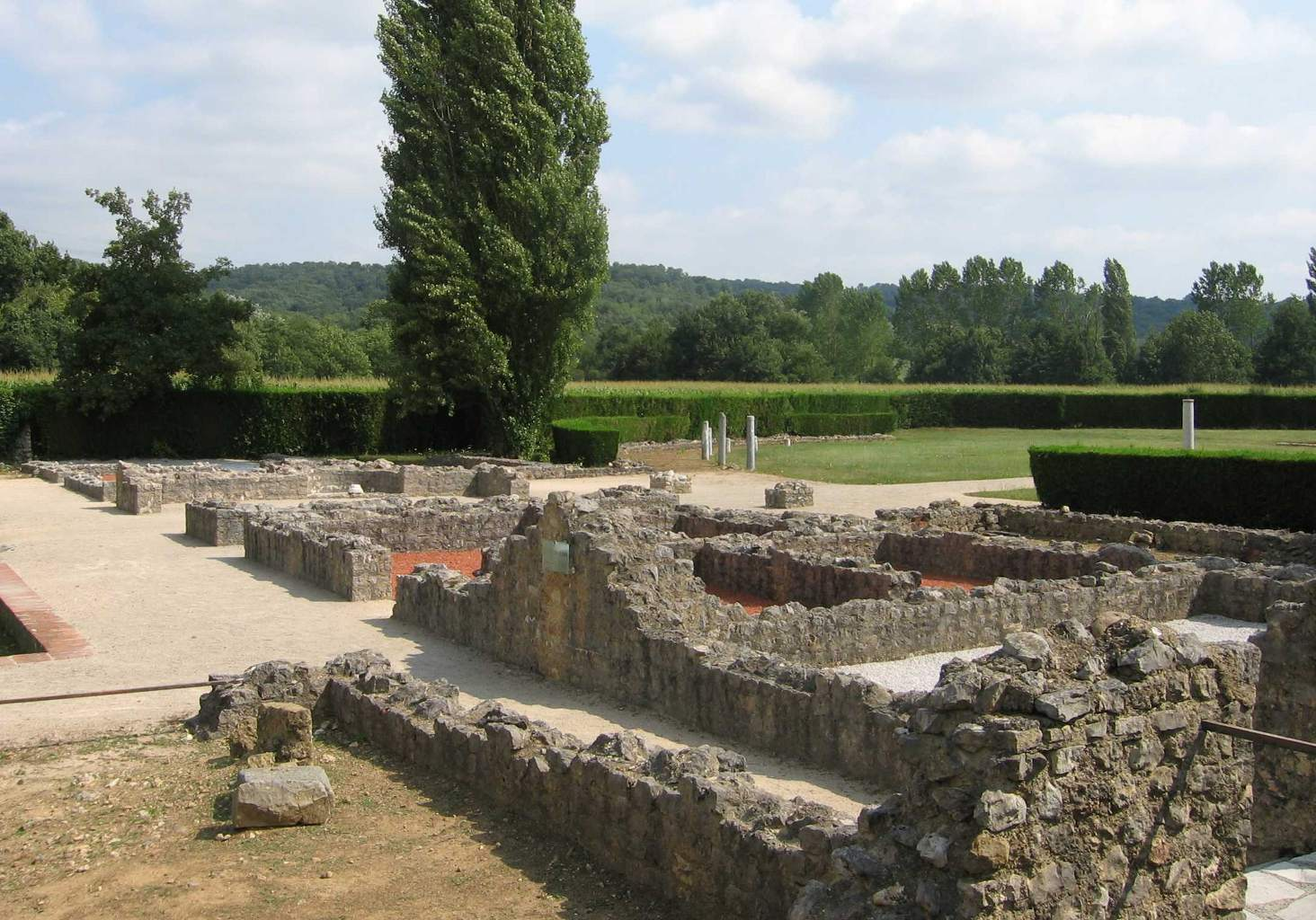 Roman villa in Montmaurin, France. Center housing building, southern part.